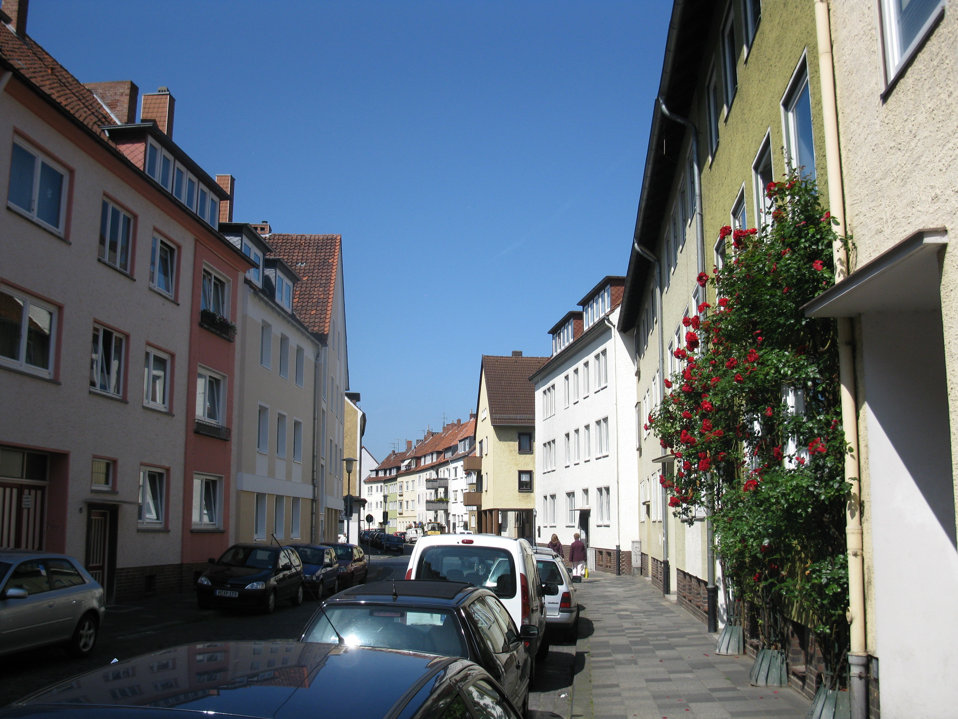 Old Market, Hildesheim